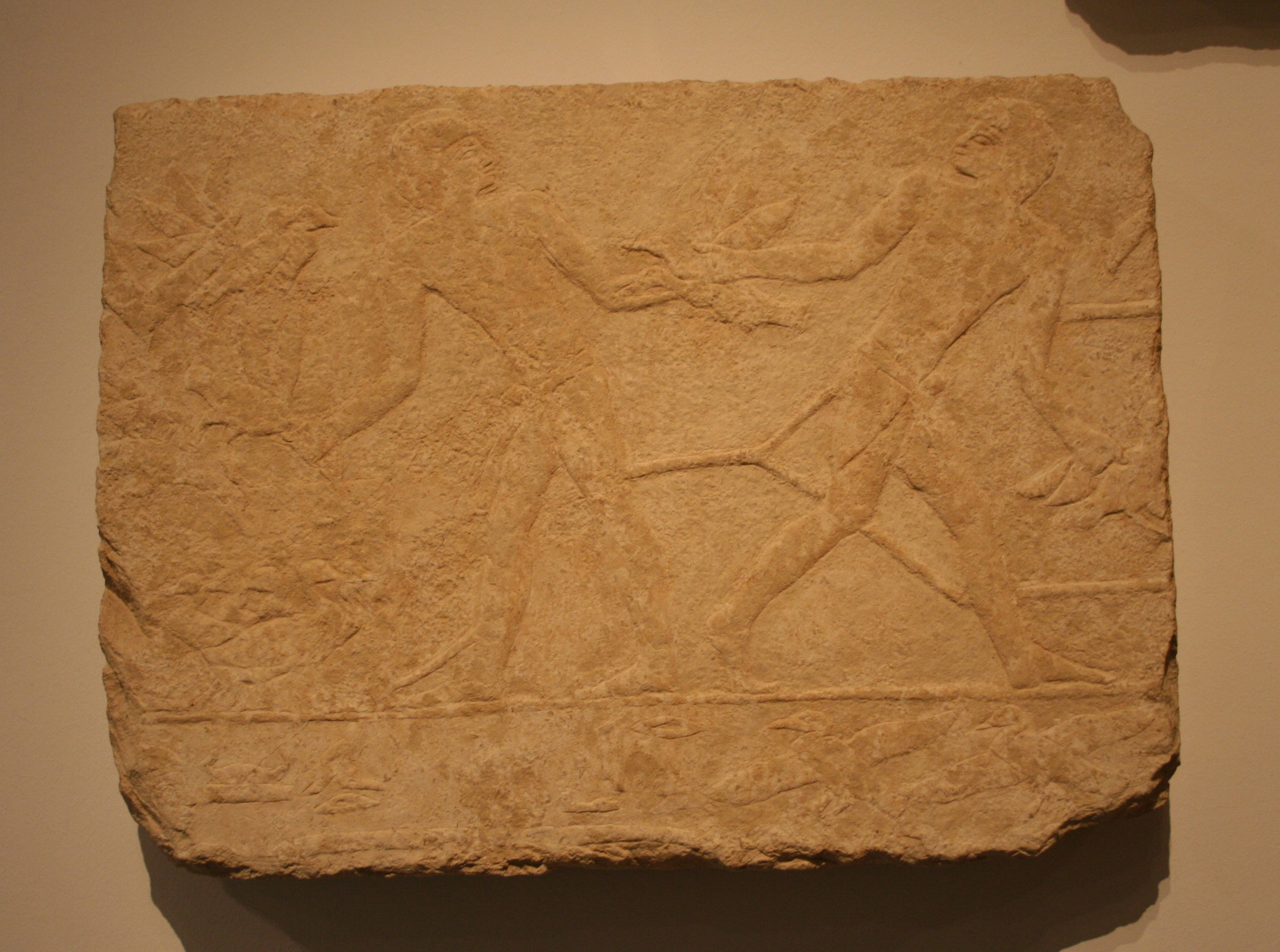 Roemer- und Pelizaeus-Museum, Hildesheim